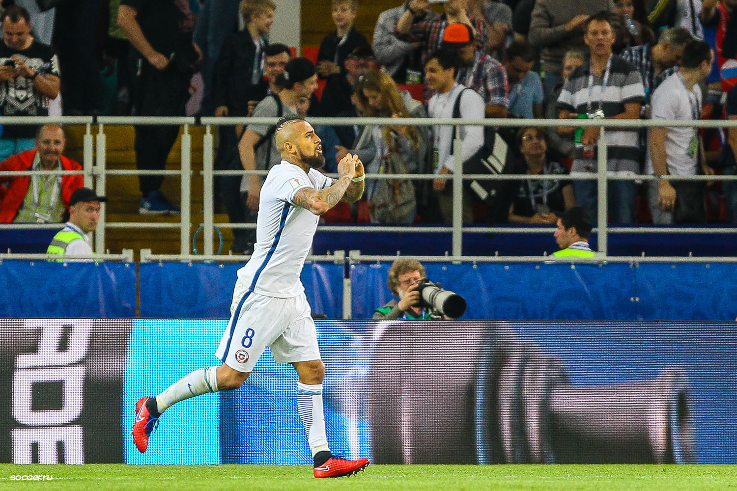 Cameroon vs Chile (0-2). FIFA Confederations Cup 2017